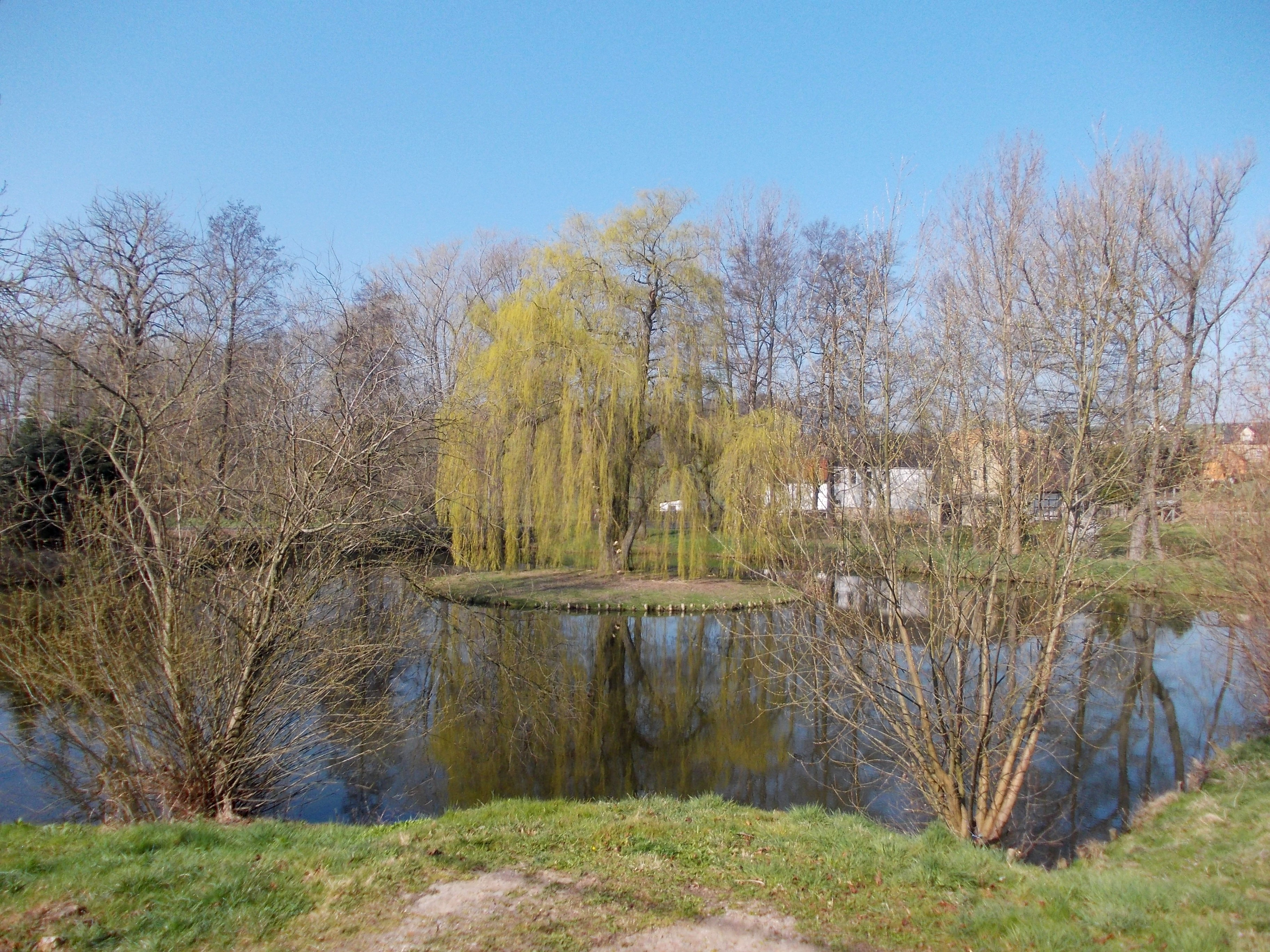 Pond in Köthel (Schönberg, Zwickau district, Saxony)